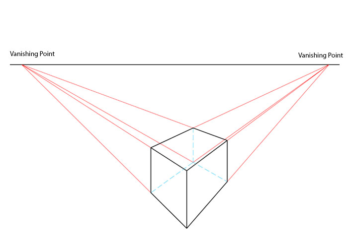 An example of a two point perspective drawing.